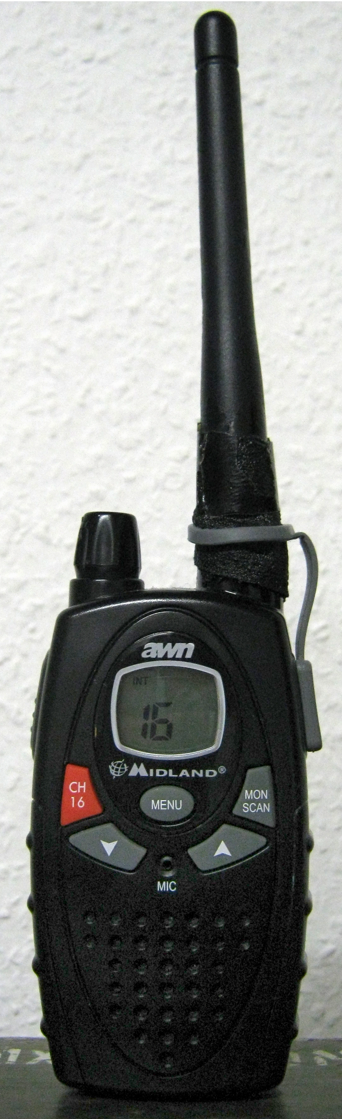 VHF on-board commcunication station, a low-power mobile radio station in the maritime mobile service.